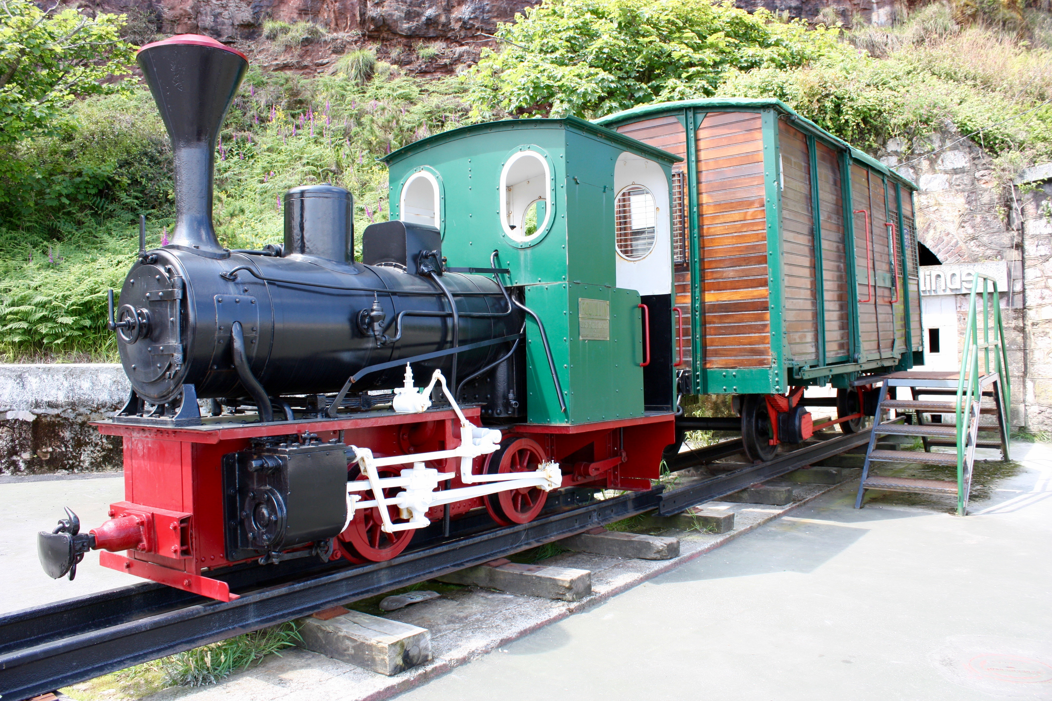 Conjunto formado por la locomotora de vapor Rojillín y el vagón de infomación turística delante del túnel de San Martín